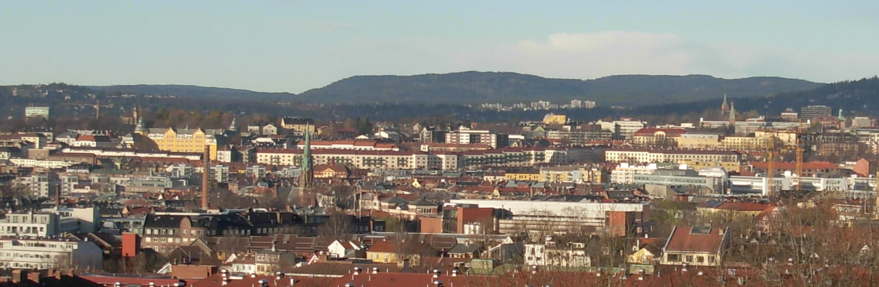 Ila and St. Hanshaugen seen from Tøyenparken. Ila skole is the yellow building to the left